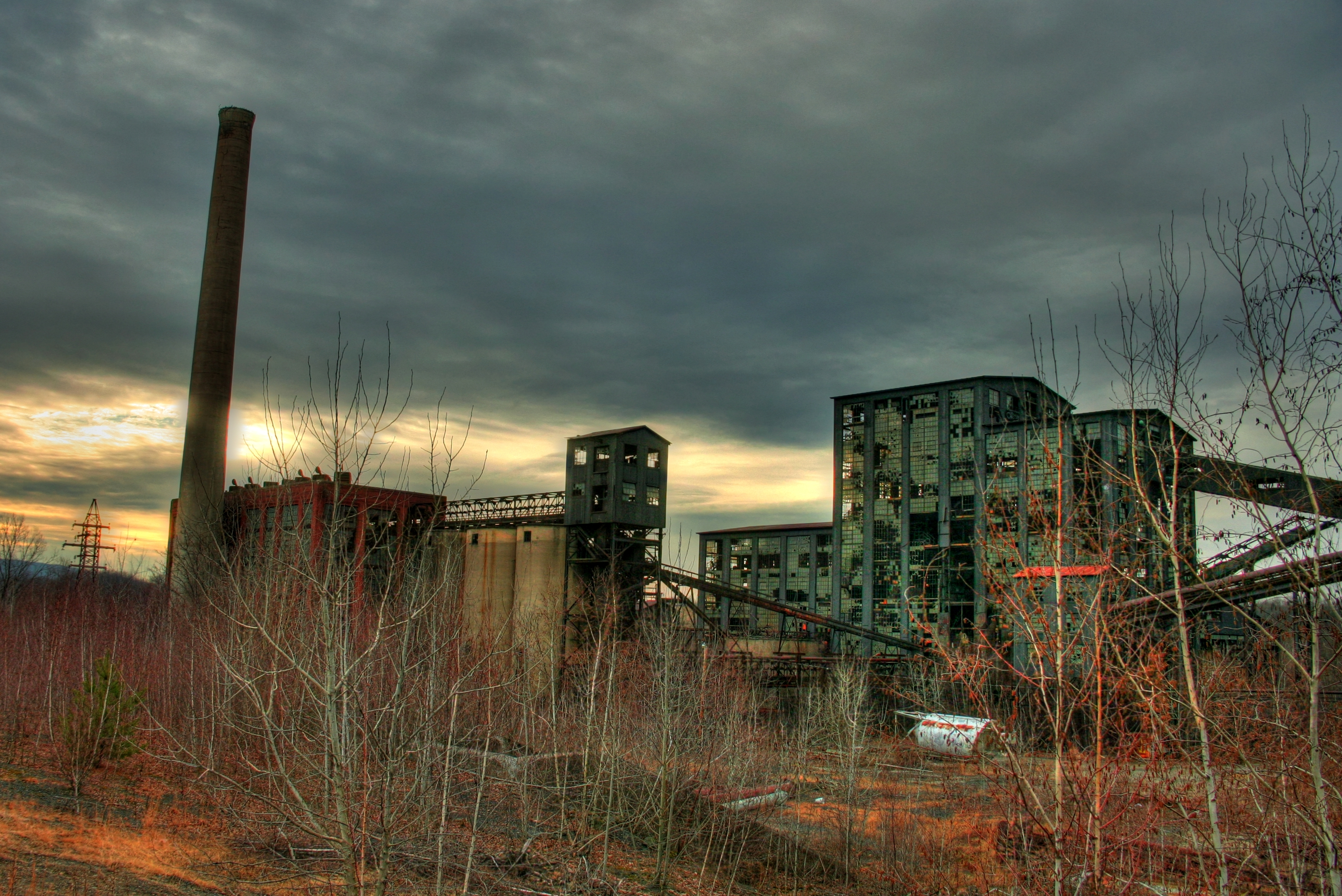 Huber Breaker: The largest anthracite coal breaker in North America. Built in 1938, it closed in 1973. Ashley, Pennsylvania. 3 exposure HDR with +/-2 EV bracketing. Processed by Photomatix